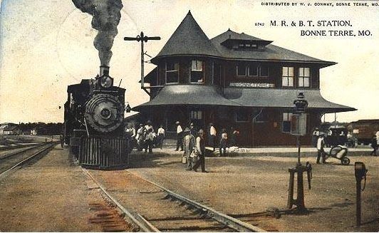 Mississippi River & Bonne Terre Railway (M.R.& B.T.)